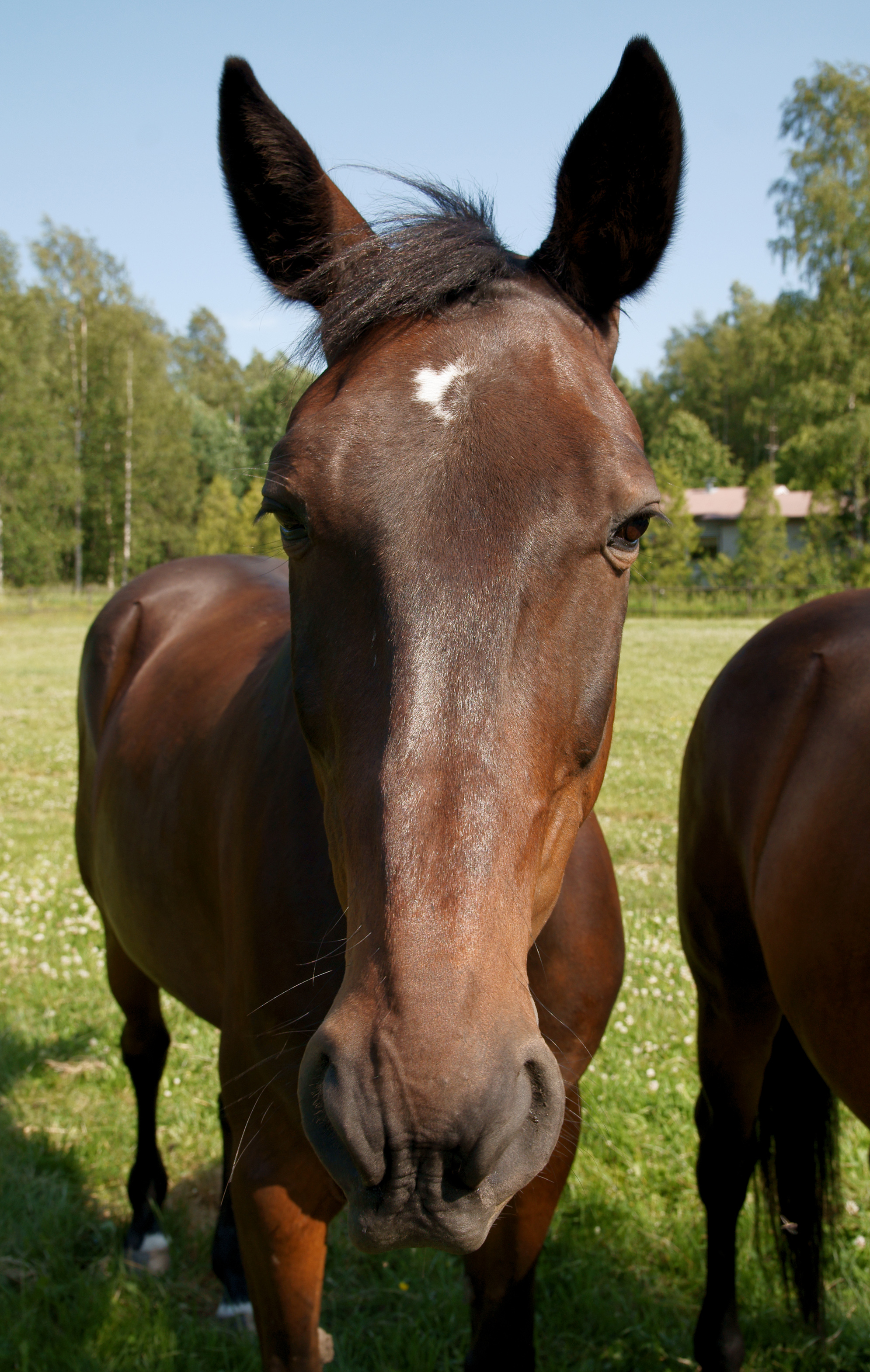 Standardbred horse.